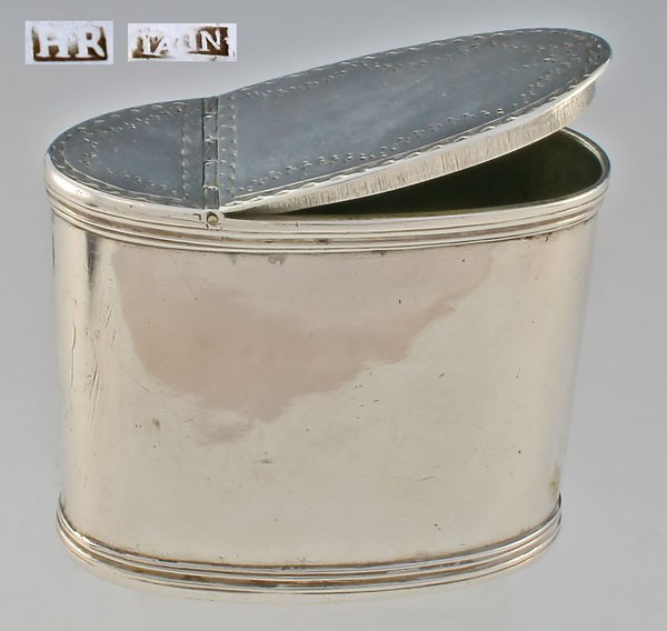 This Tain silver snuff box, made by Hugh Ross in the mid 18th century, was sold at auction in Guernsey in September 2006 to a private purchaser. The same box was exhibited in the Empire Exhibition in Glasgow in 1938 and at that time belonged to Major H.N. Robertson